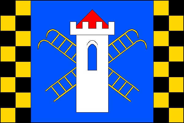 Municipal flag of Kunětice village, Pardubice District, Czech Republic.